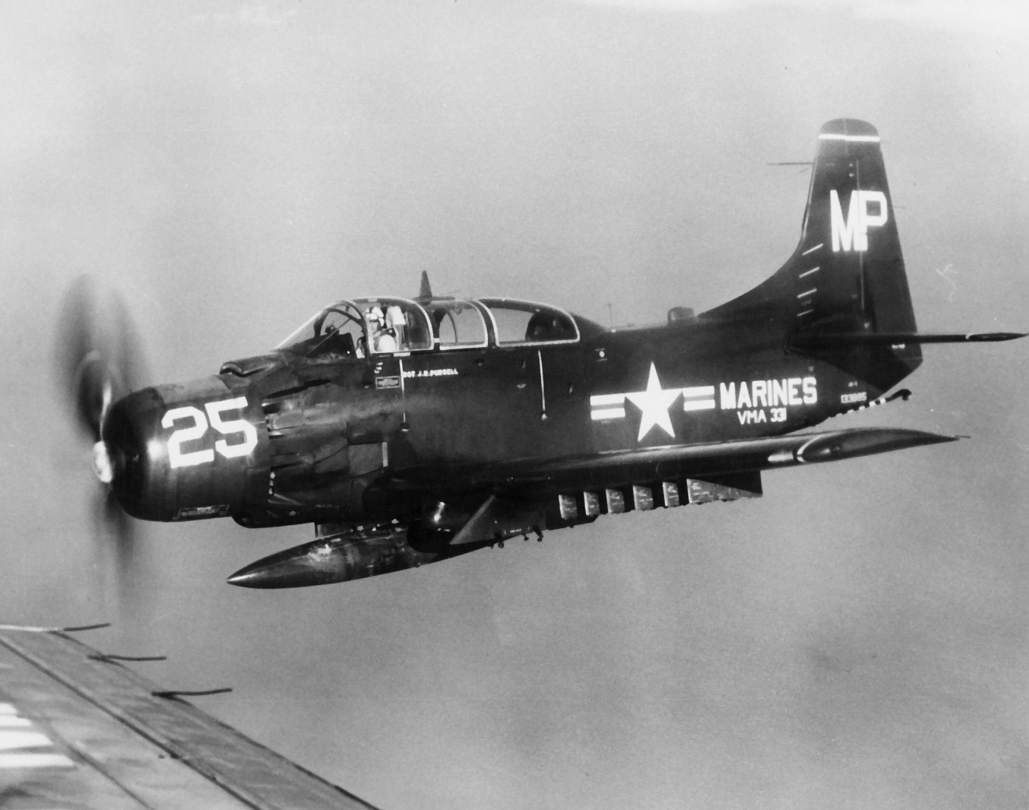 A U.S. Marine Corps Douglas AD-5 (BuNo 1338?5) of Marine attack squadron VMA-331 Bumblebees. VMA-331 was operating from the aircraft carrier USS Leyte (CVS-32), circa mid-1950s.